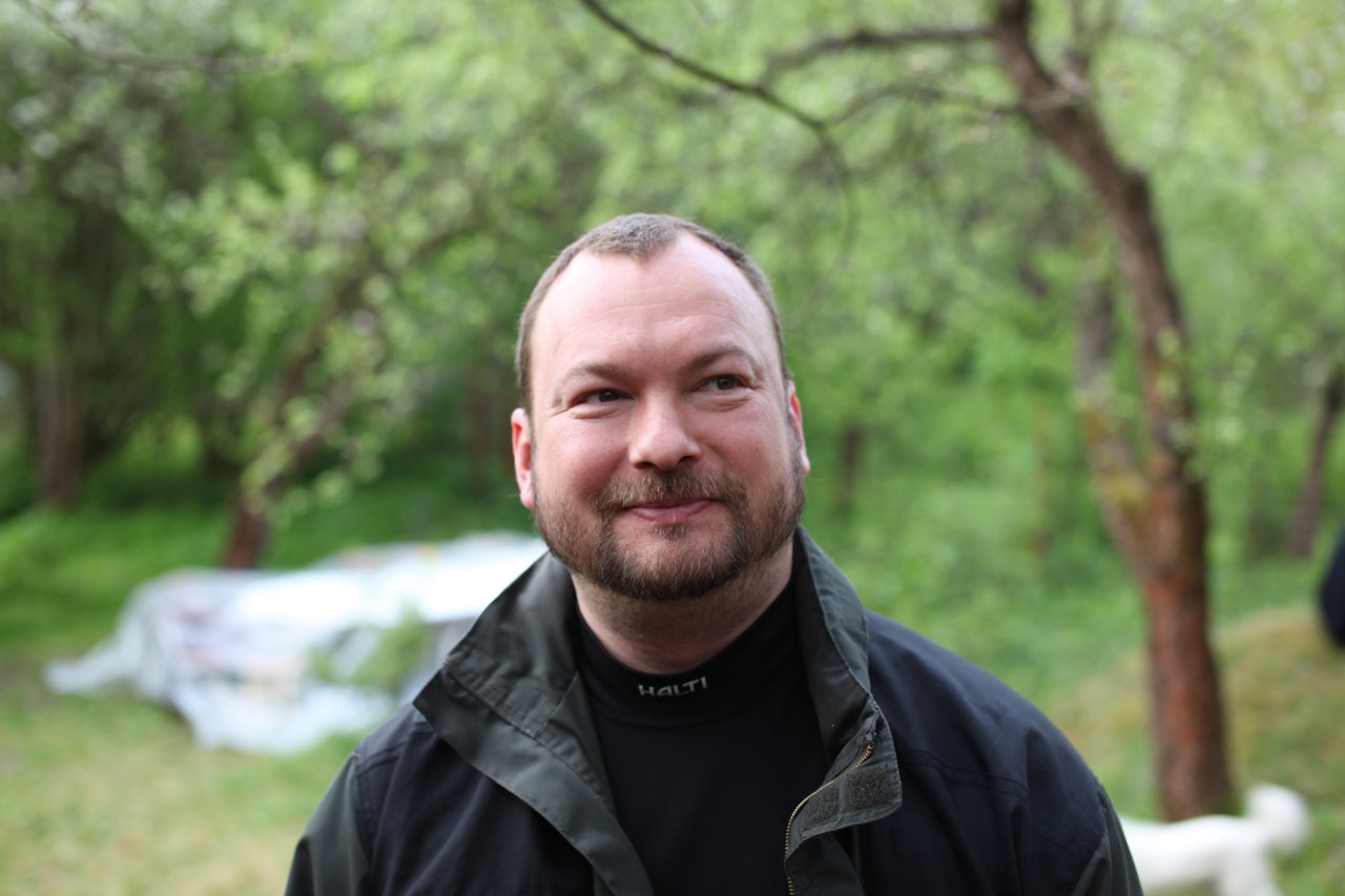 Theatre director and author Kristian Smeds